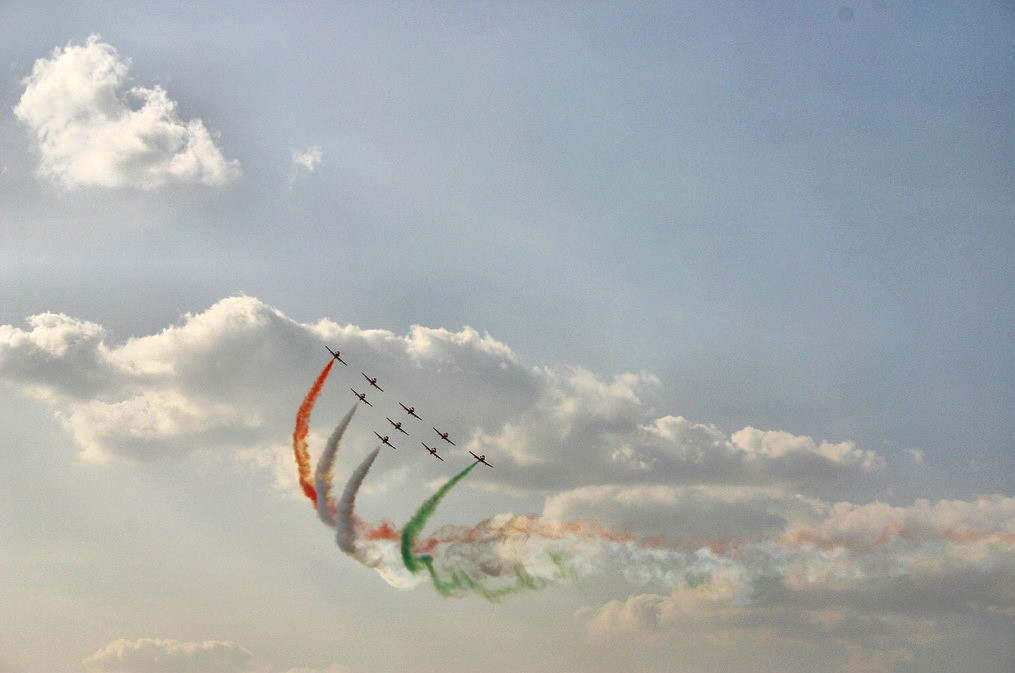 The Surya Kirans. See